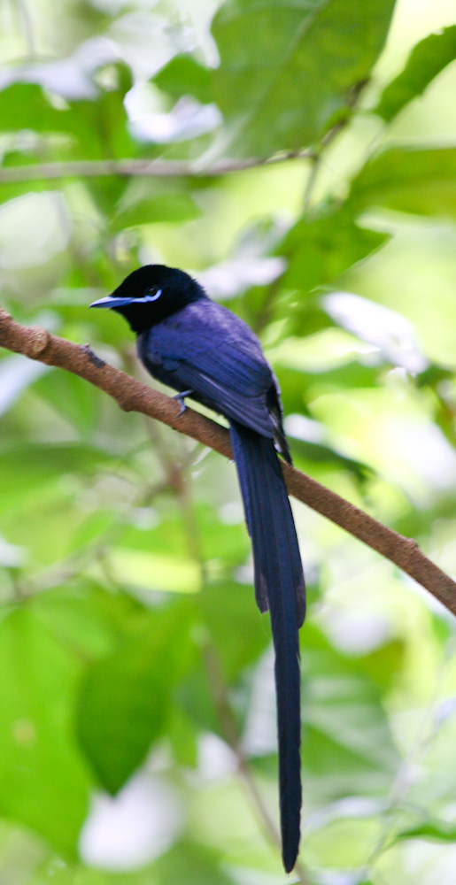 A Seychelles Paradise-flycatcher taken at La Veuve Special Réserve (La Digue, Seychelles)